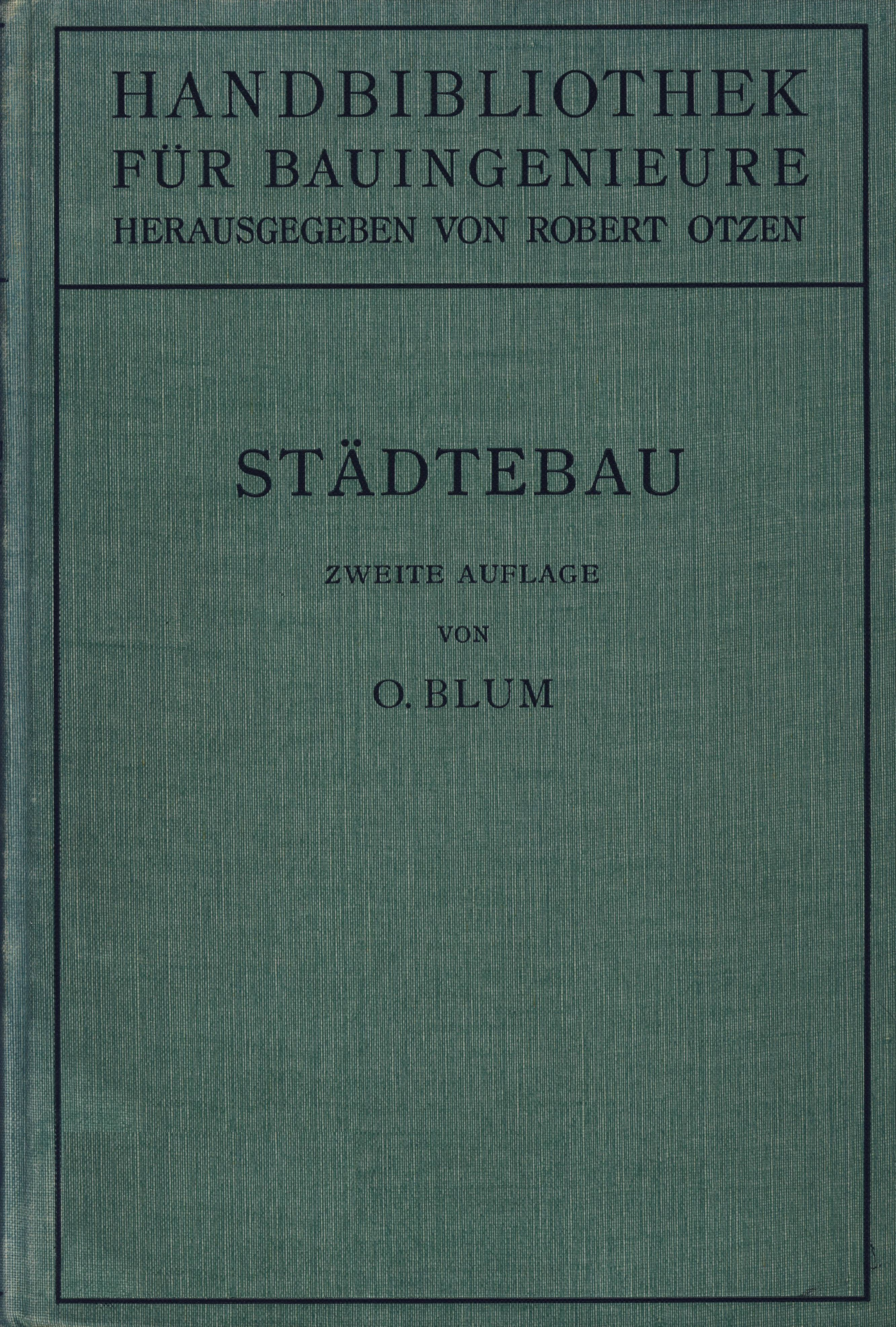 Otto Blum: Städtebau. Berlin 1921. 2nd. edition 1937